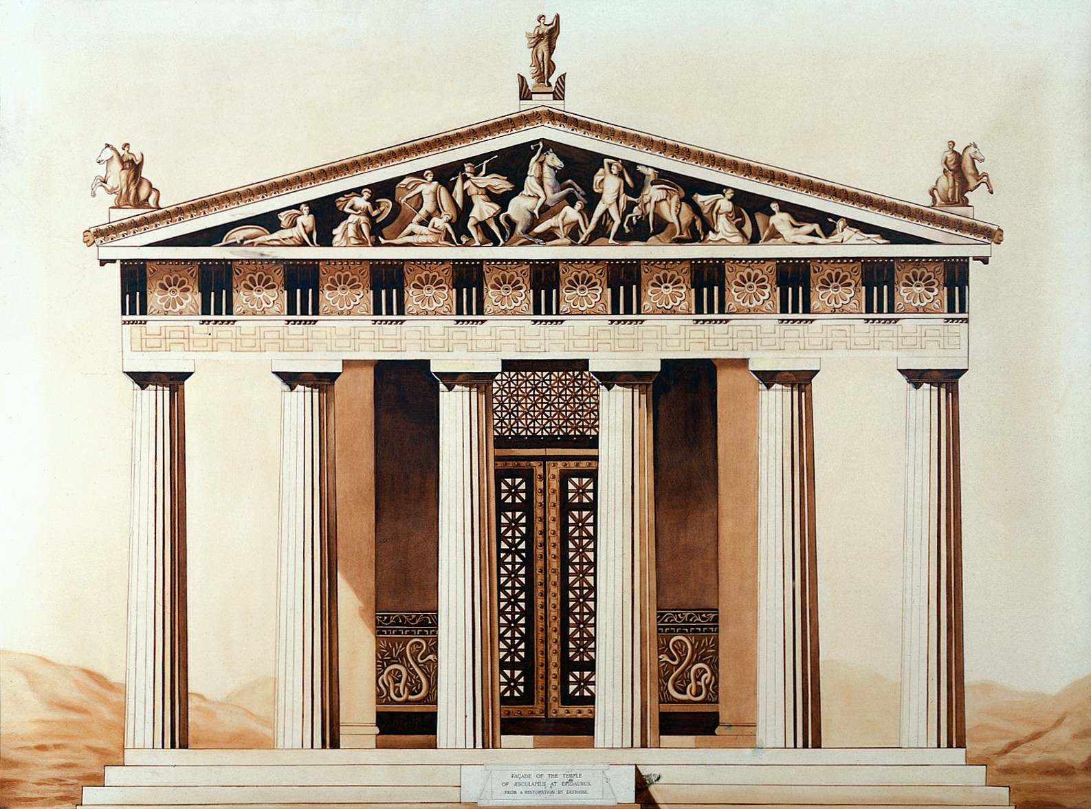 Reconstruction of the facade of temple of Aesculapius at Epidaurus General Collections Keywords: Ancient Greece; Architecture; Architecture as Topic; Alphonse Defrasse; Alphonse Defrasse